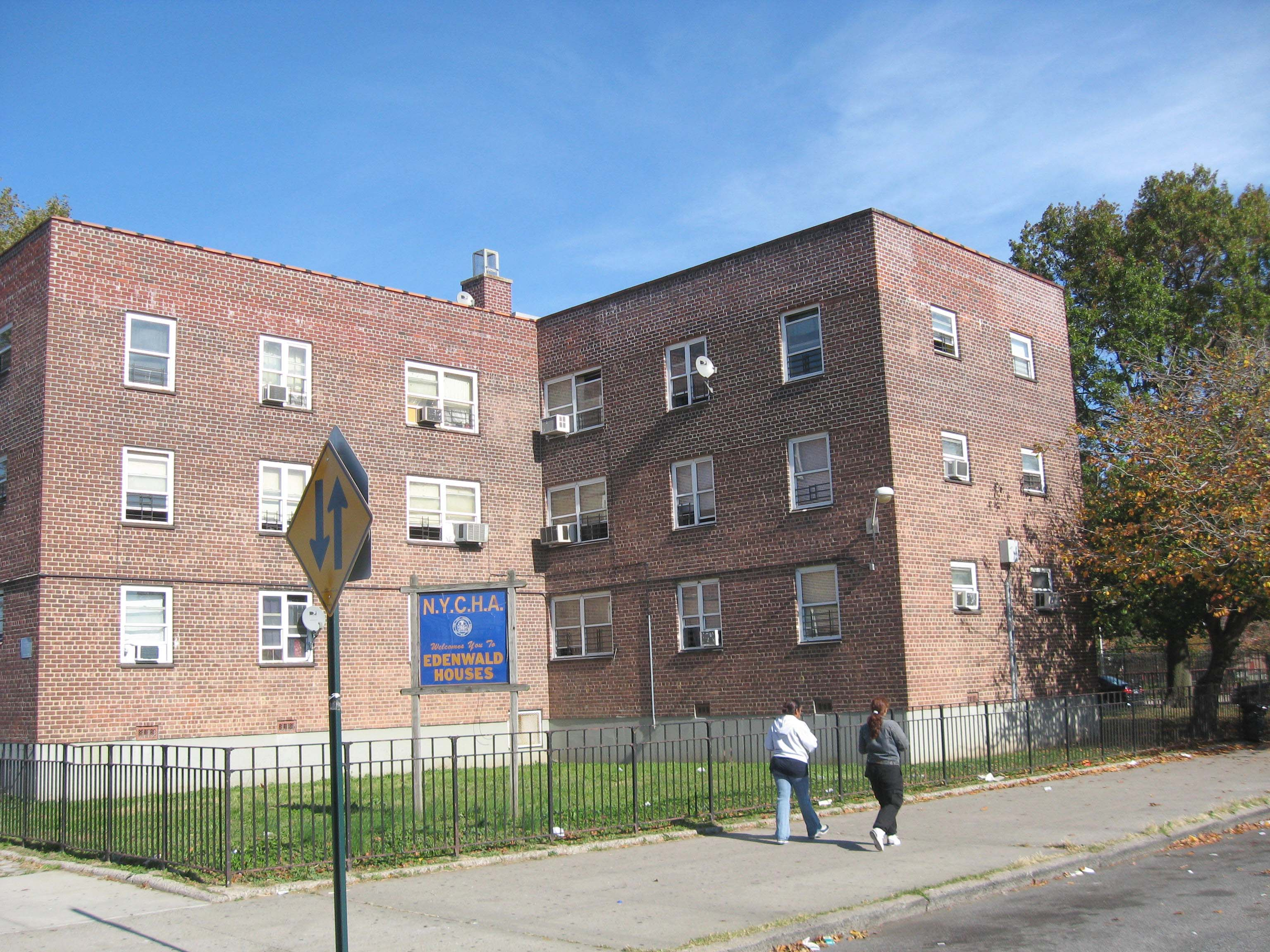 Looking east from Laconia and 225th Street at Edenwald, Bronx NYCHA on a sunny midday